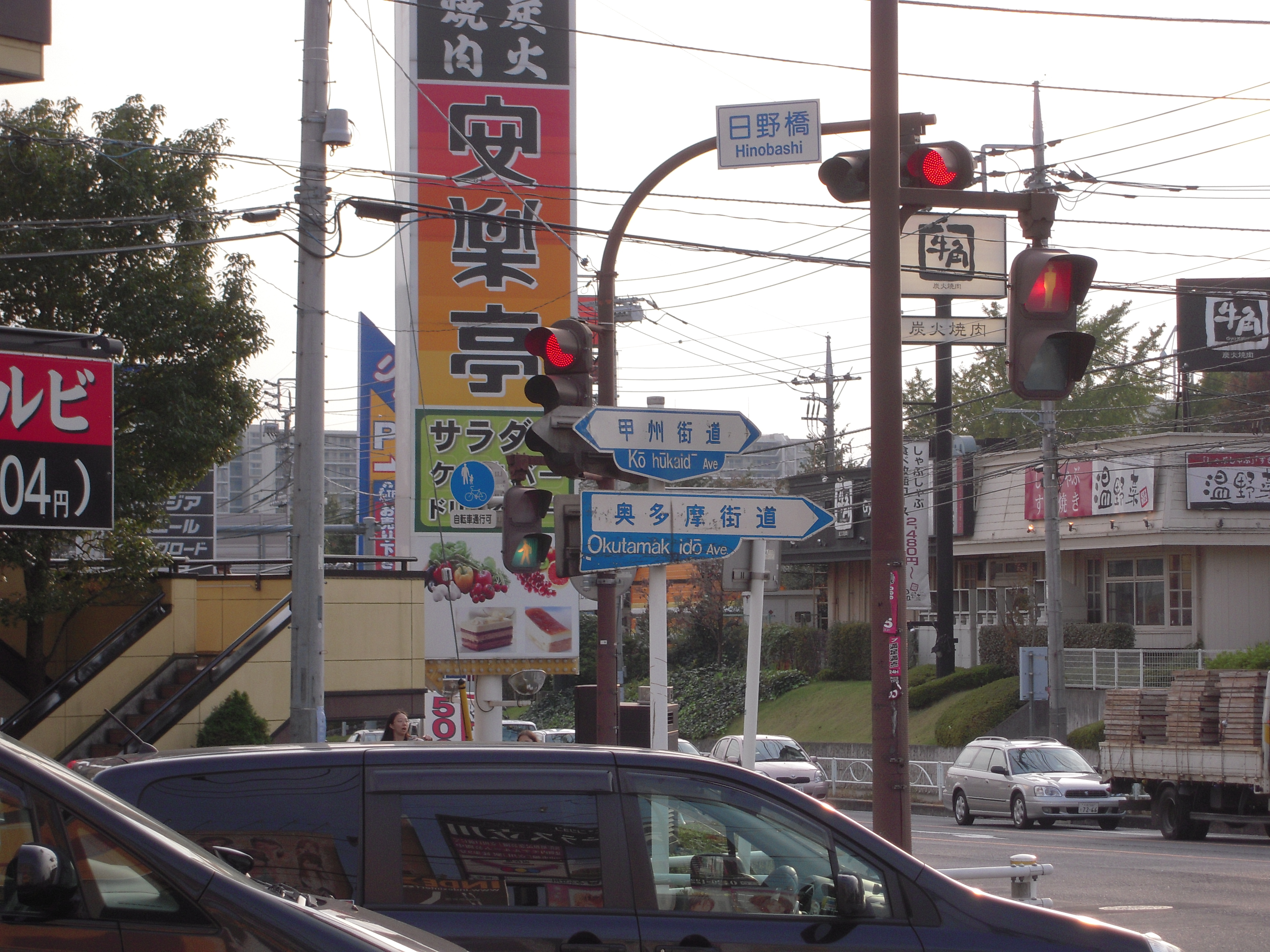 Hinobashi crossing